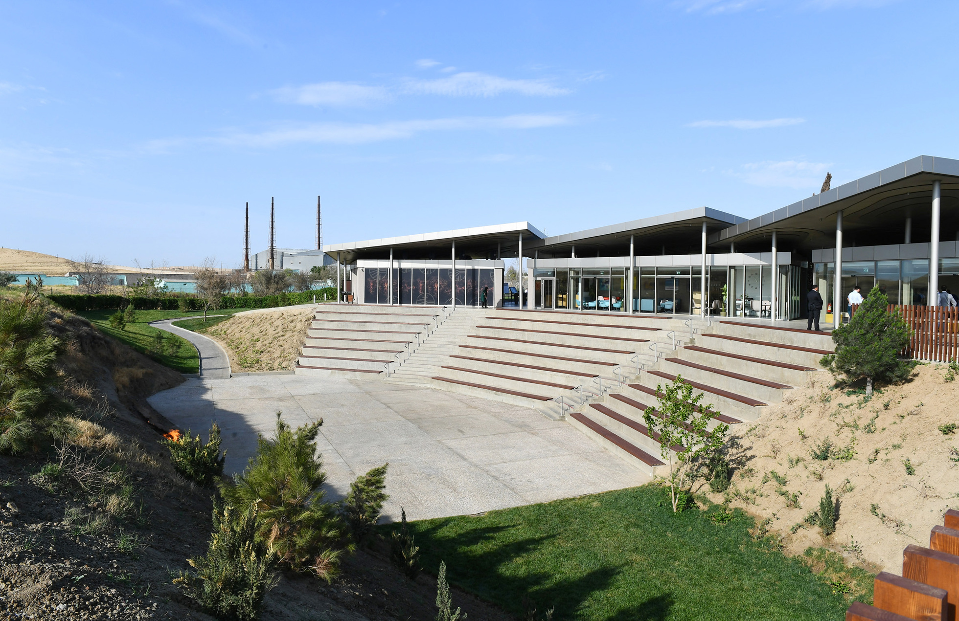 Ilham Aliyev inaugurated Yanardag Reserve after major overhaul